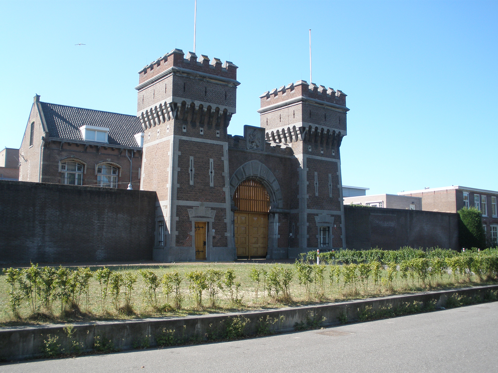 Scheveningen prison in the Netherlands, where people on trial by the International Criminal Court and the International Criminal Tribunal for the former Yugoslavia are detained. Slobodan Milošević died here in 2006.